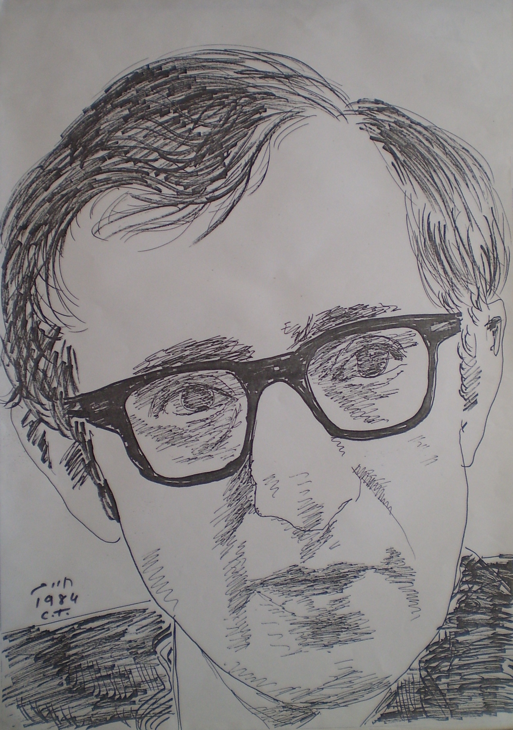 Drawing of Woody Allen made by Chaim Topol. Donated To Commons under cc-by-sa license in honor of Jordan River Village